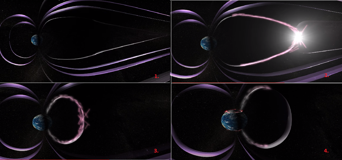 the process of magnetic reconnection as described by NASA